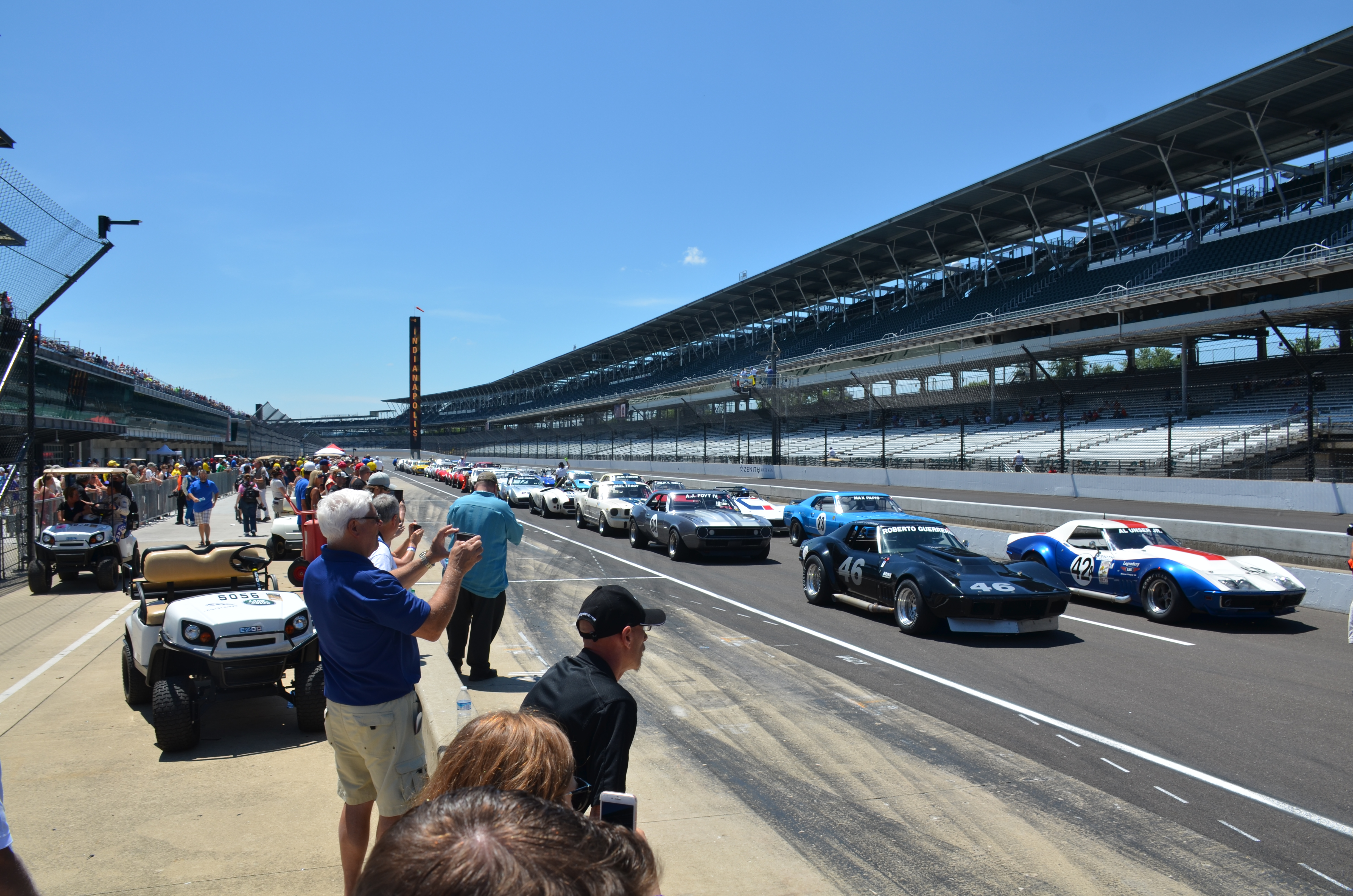 The starting field for the 2016 SVRA Brickyard Invitational Indy Legends Charity Pro-Am race (Indianapolis Motor Speedway).